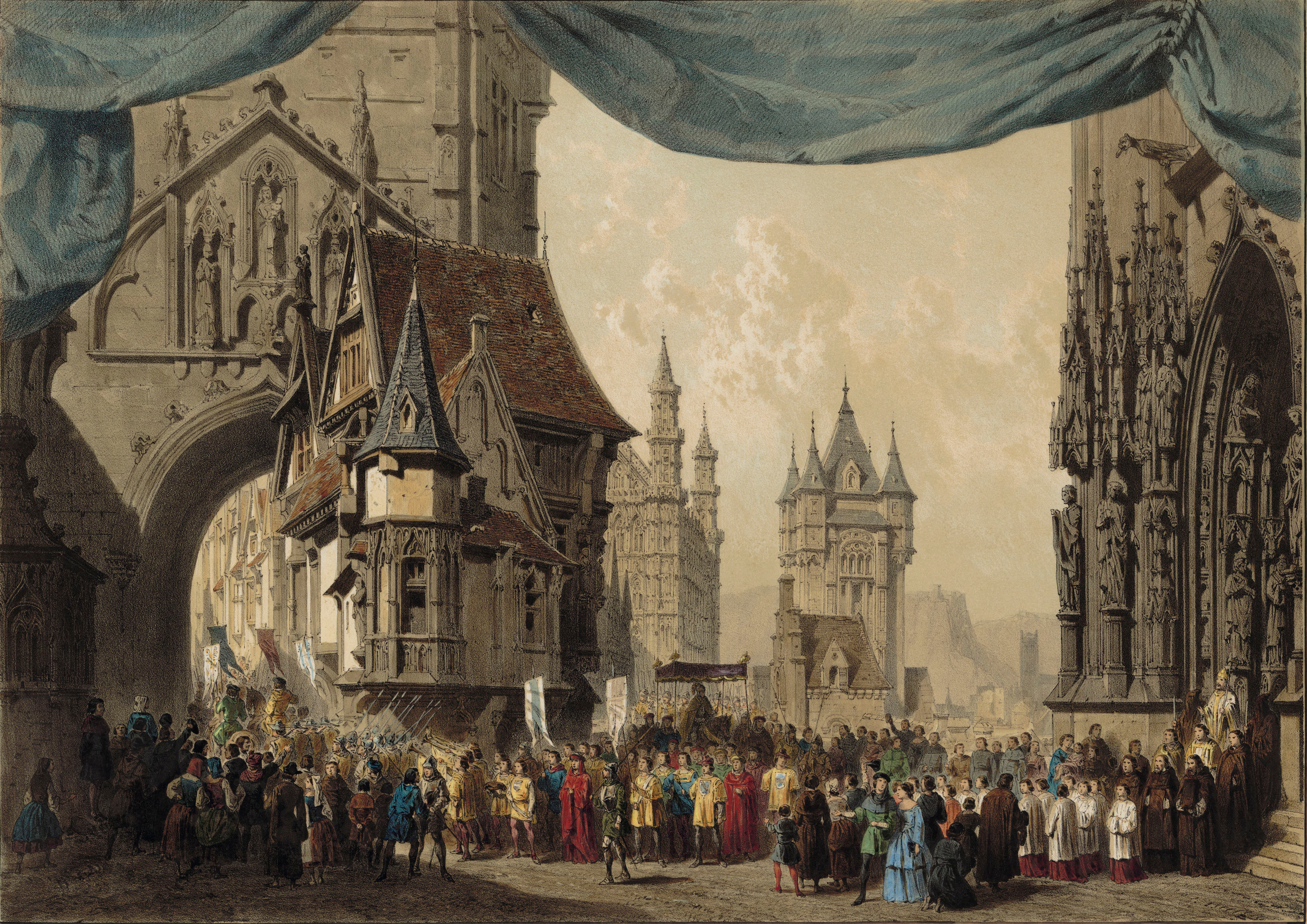 Act I of the opera La Juive by Fromental Halévy for the first production on 23 February 1835